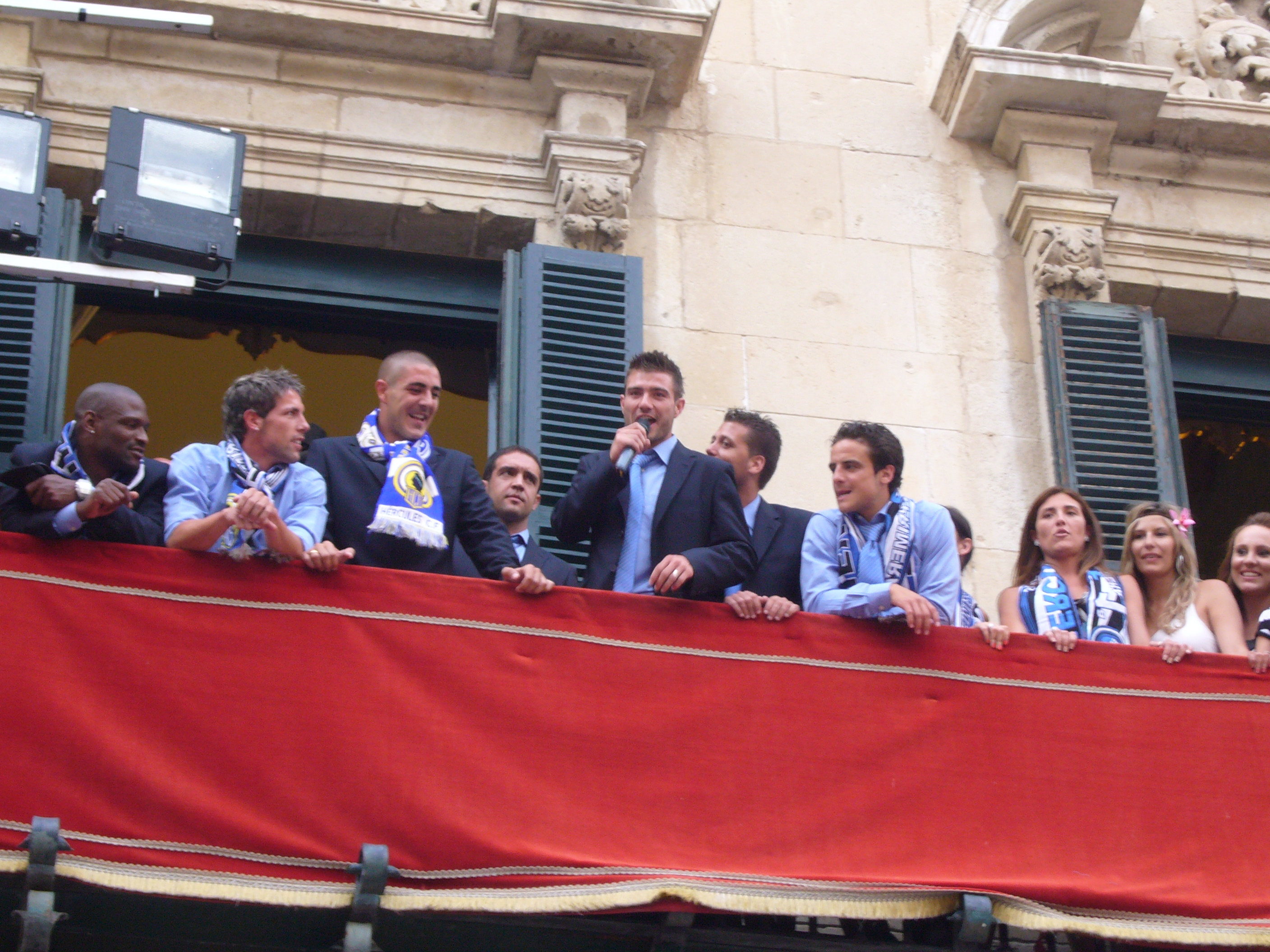 Tiago Gomes (with microphone in hand) on the balcony of the City of Alicante during the celebrations for the rise of Hércules C. F. to First division in 2009/10 season.